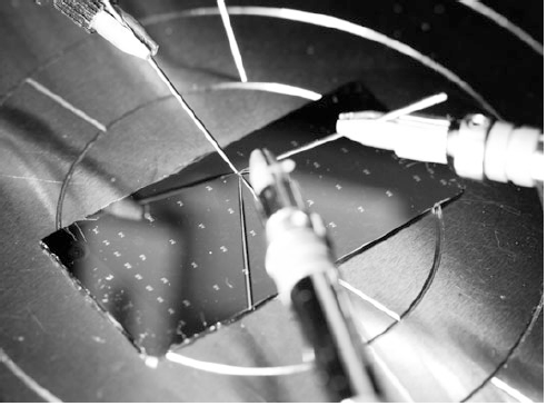 Application of vapor phase chemical deposition method in thin film fabrication